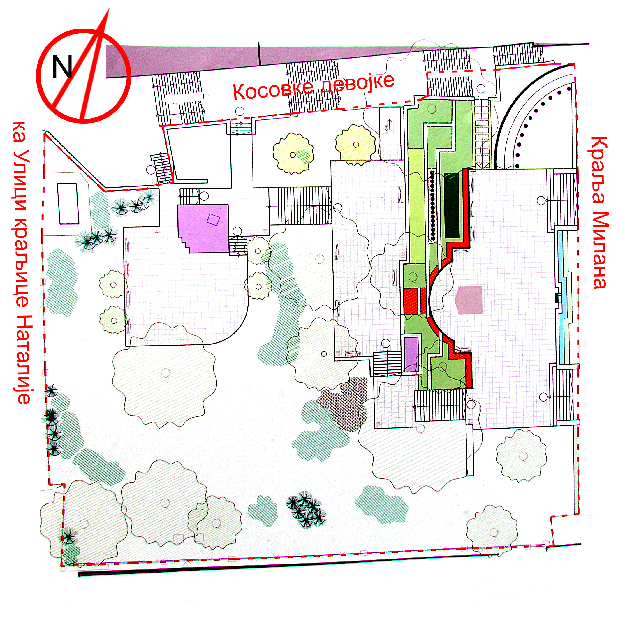 Devojacki park in Belgrade